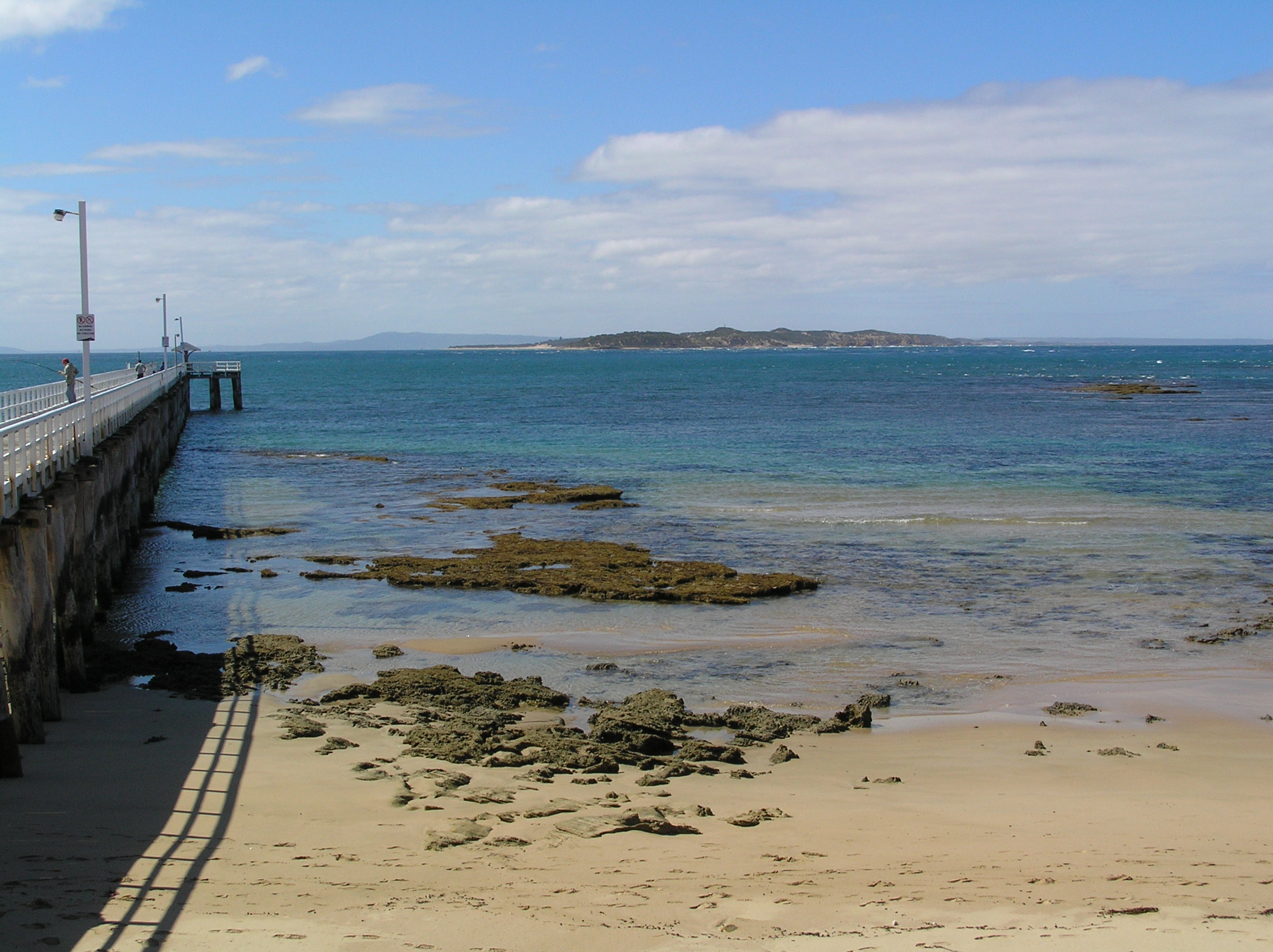 View from below Point Lonsdale Lighthouse, past the jetty, across the Rip towards Point Nepean, Victoria, Australia.